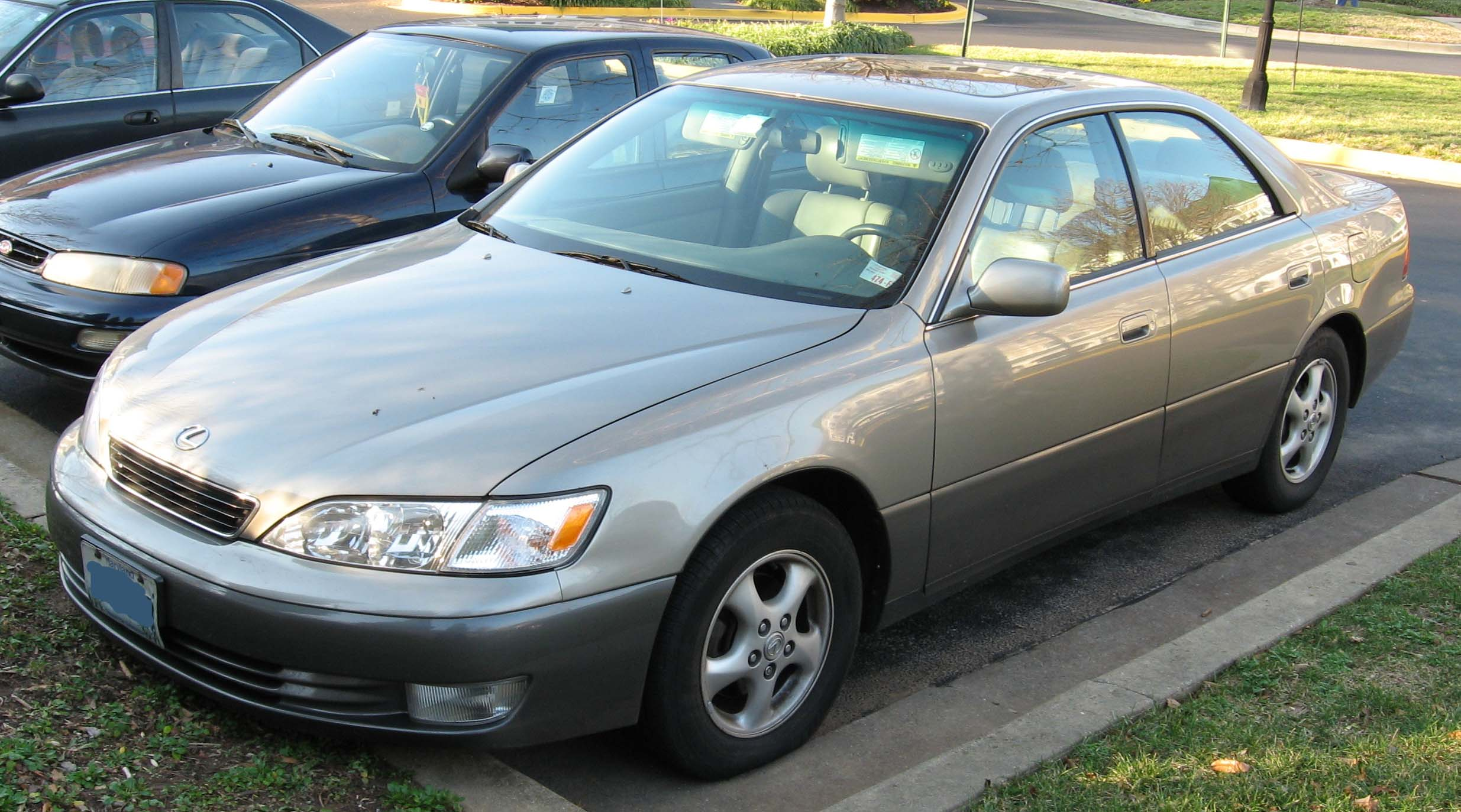 1997-1999 Lexus ES300 photographed in USA.